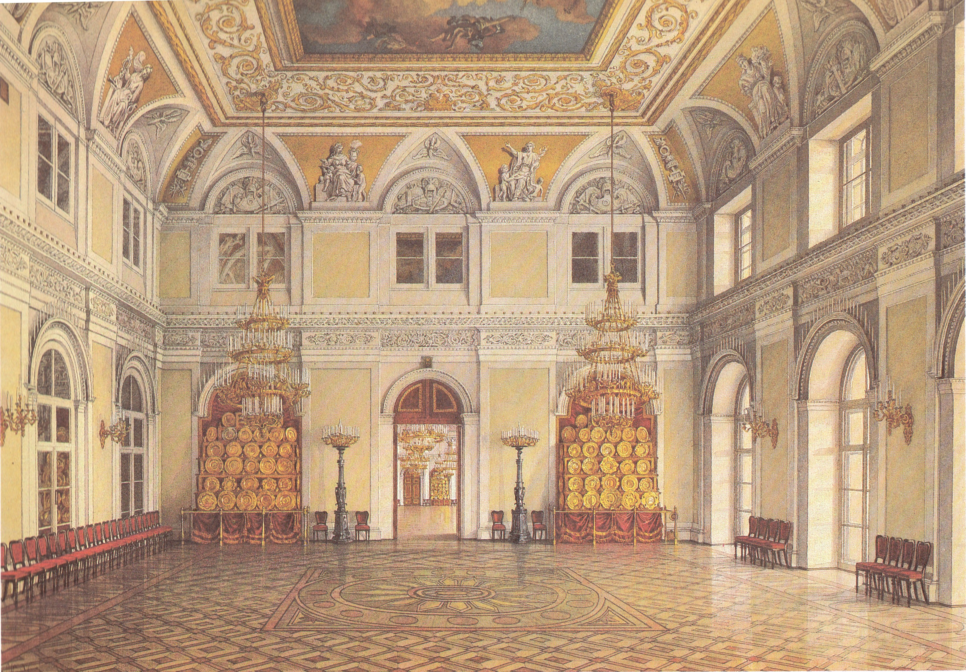 Interiors of the Winter Palace. Avantsalle